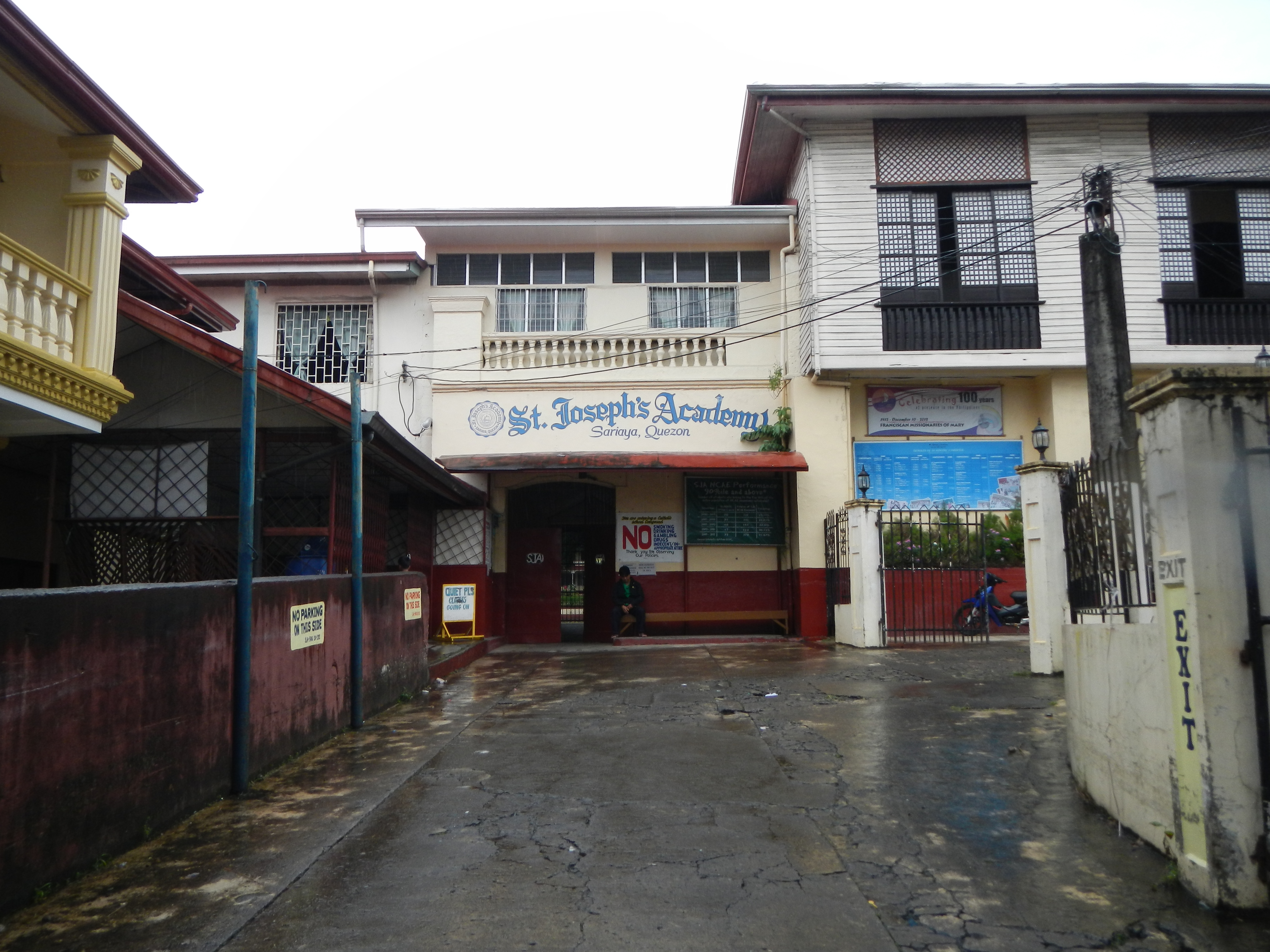 Upload Wizard -- (general description of landmarks, town, church) - of the ABC Building, Sariaya Multi-Purpose Cooperative building, General Luna St., Saint Joseph's Academy - Sariaya proper [1] Munting Bayan St., Giant Acacia Tree, a historical tree of the Church, of the --- 1599 Saint Francis of Assisi Parish Church of Sariaya, Quezon [2] - Feast - October 4, Concepcion, Sariaya 4322 Quezon - belongs to the Roman Catholic Diocese of Lucena [3] [4] - Sariaya’s Santissimo Cristo de Burgos, the Museo ng Debosyon at Buhay[5] - Sariaya church was built in 1599, in 1965, replaced in 1641and finally re-built in 1748; located in Sariaya town proper;[6] [7][8] Church Architecture [9] [10] [11] - Episcopal District of Saint Mark, Vicariate of Saint Philip - Sariaya, Quezon [12] ([13] Region: CALABARZON Region IV-A 2nd district of Quezon Founded: October 4, 1599 Castanas - Barangays: 43 area 239.8 km2 or 92.6 sq mi - a first class municipality in the province of Quezon, Philippines famous for beaches, resorts, heritage houses, and hiking activities Coordinates: 13°56'31"N 121°30'9"E).[14]).